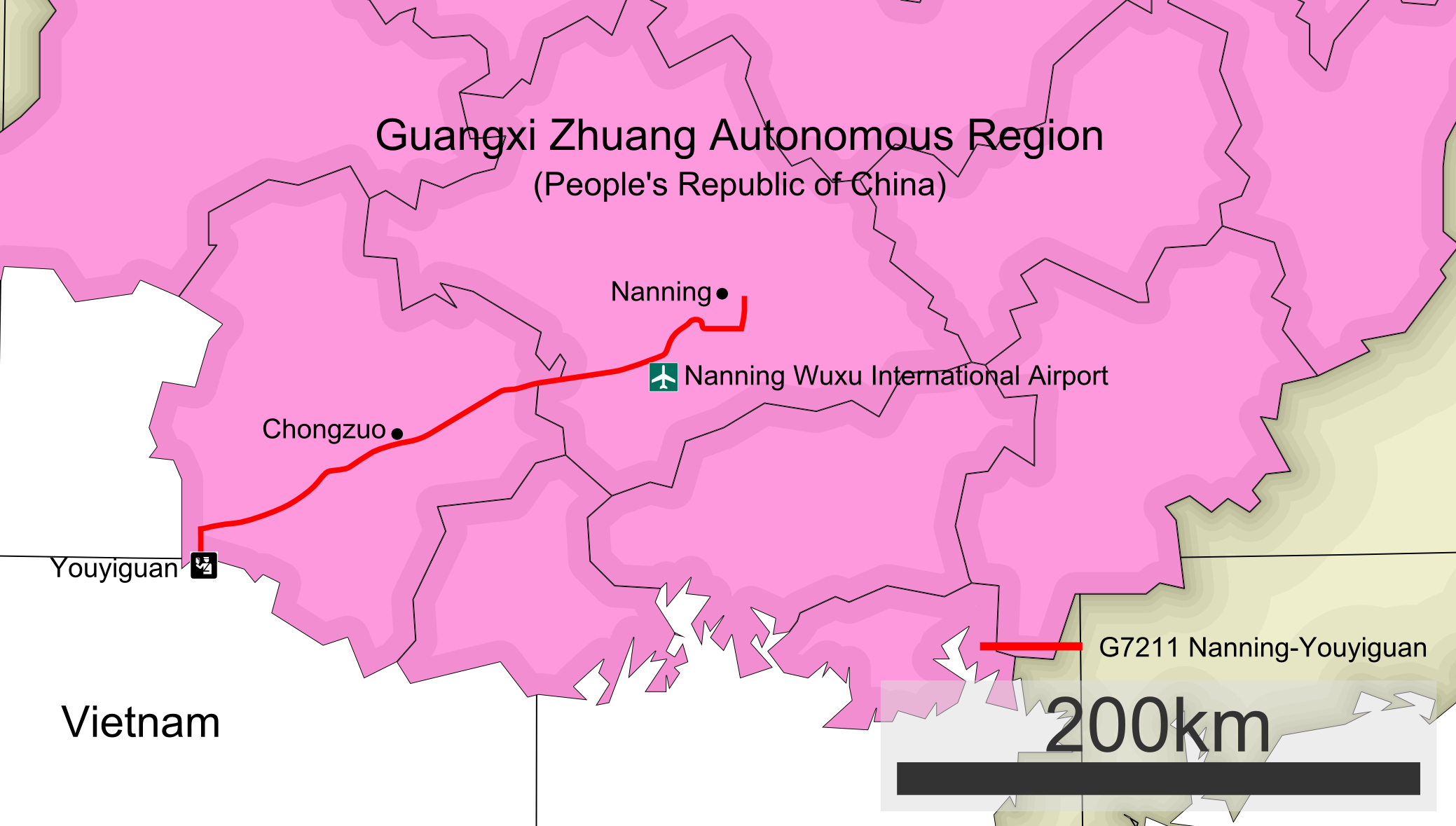 Detailed map showing the route of G7211 Nanning–Youyiguan Expressway in Guangxi Zhuang Autonomous Region, in English.